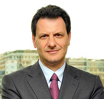 Theodoros Skylakakis is a member of the european parliament with epp group and co - establisher of Dimokratiki Symmahia political party in Greece.